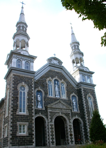 St-Eugene Qc Church